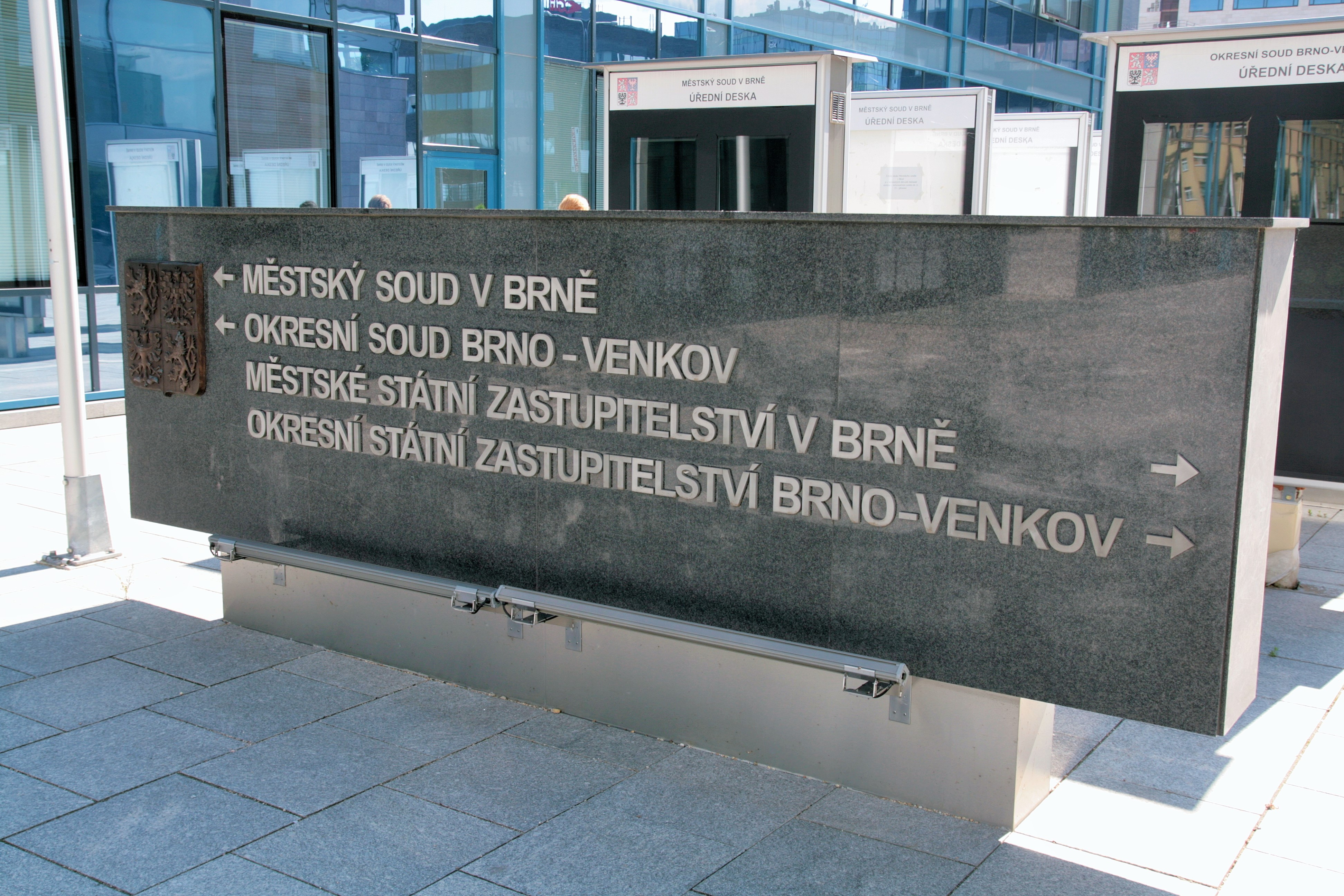 Judicial complex in Štýřice, Brno, Czech Republic.